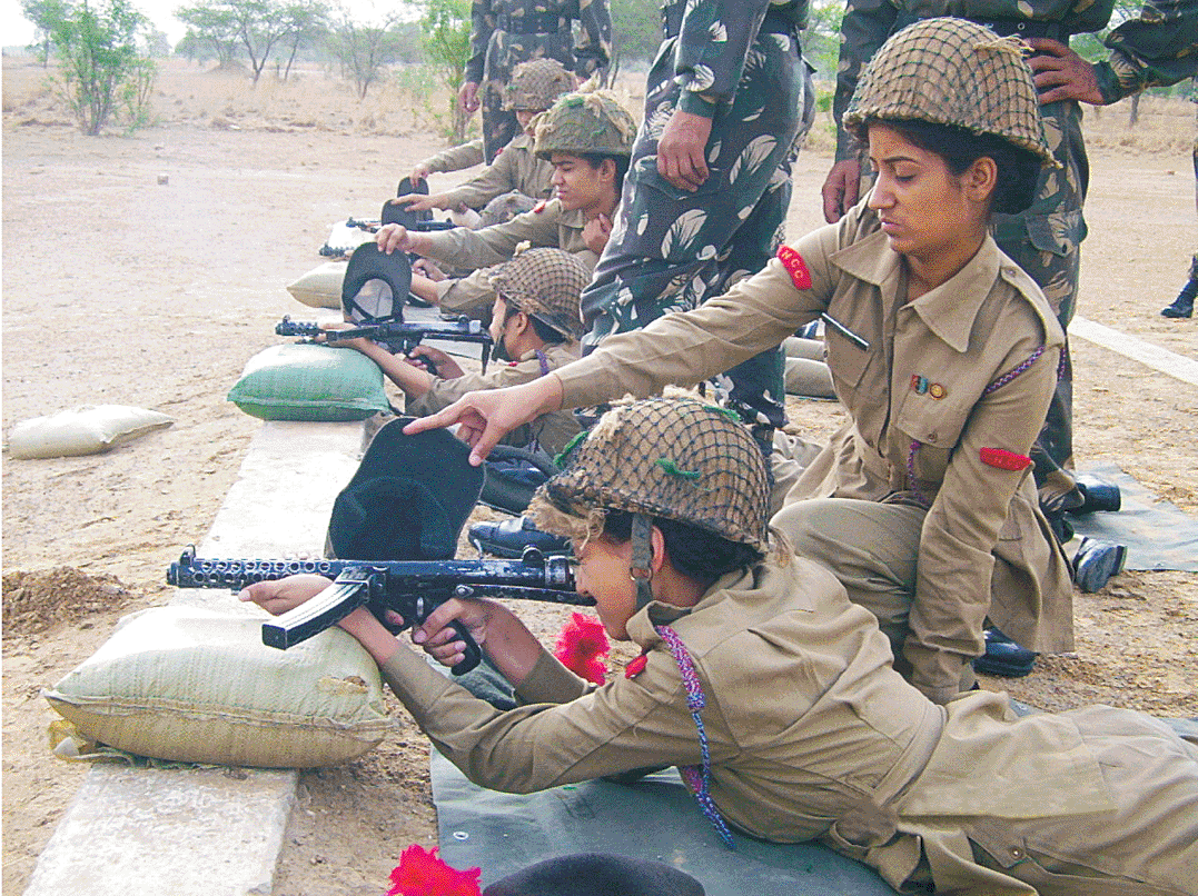 Copyright (C) 2006 Capt JV Benjamin (14 MARATHA LI)